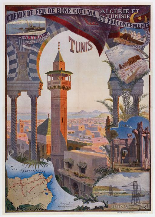 Affiche Chemin de fer de Bône-Guelma et prolongements (Algérie et Tunisie)